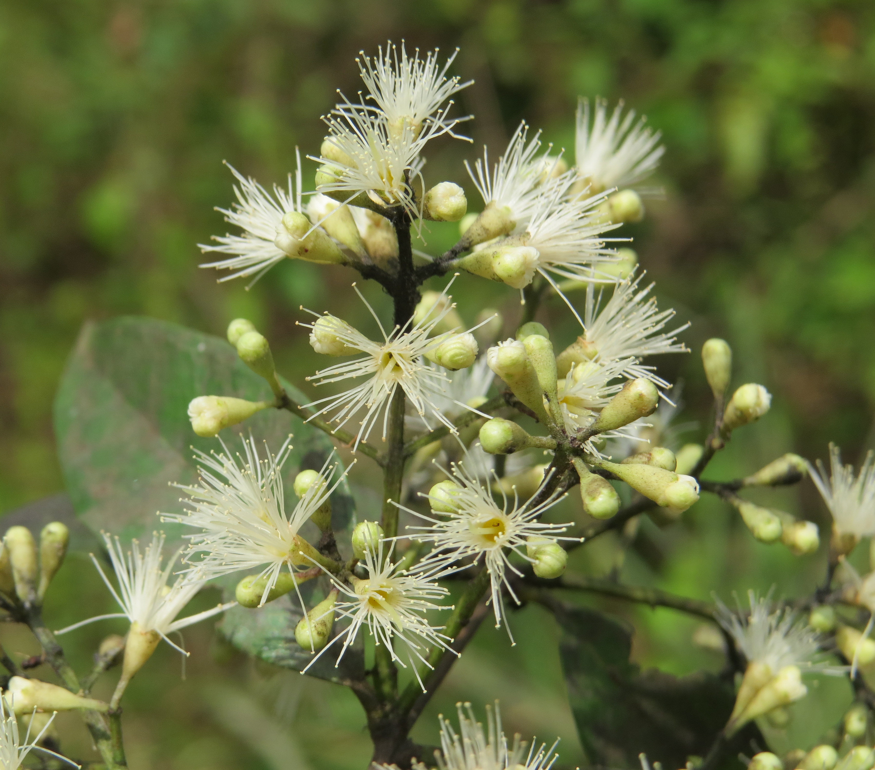 Syzygium zeylanicum